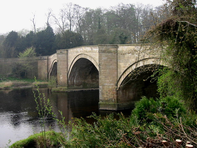 Tees Crossing at Cliffe